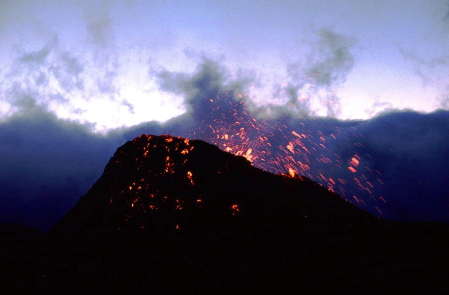 Eruption of Piton de la Fournaise, la Réunion.